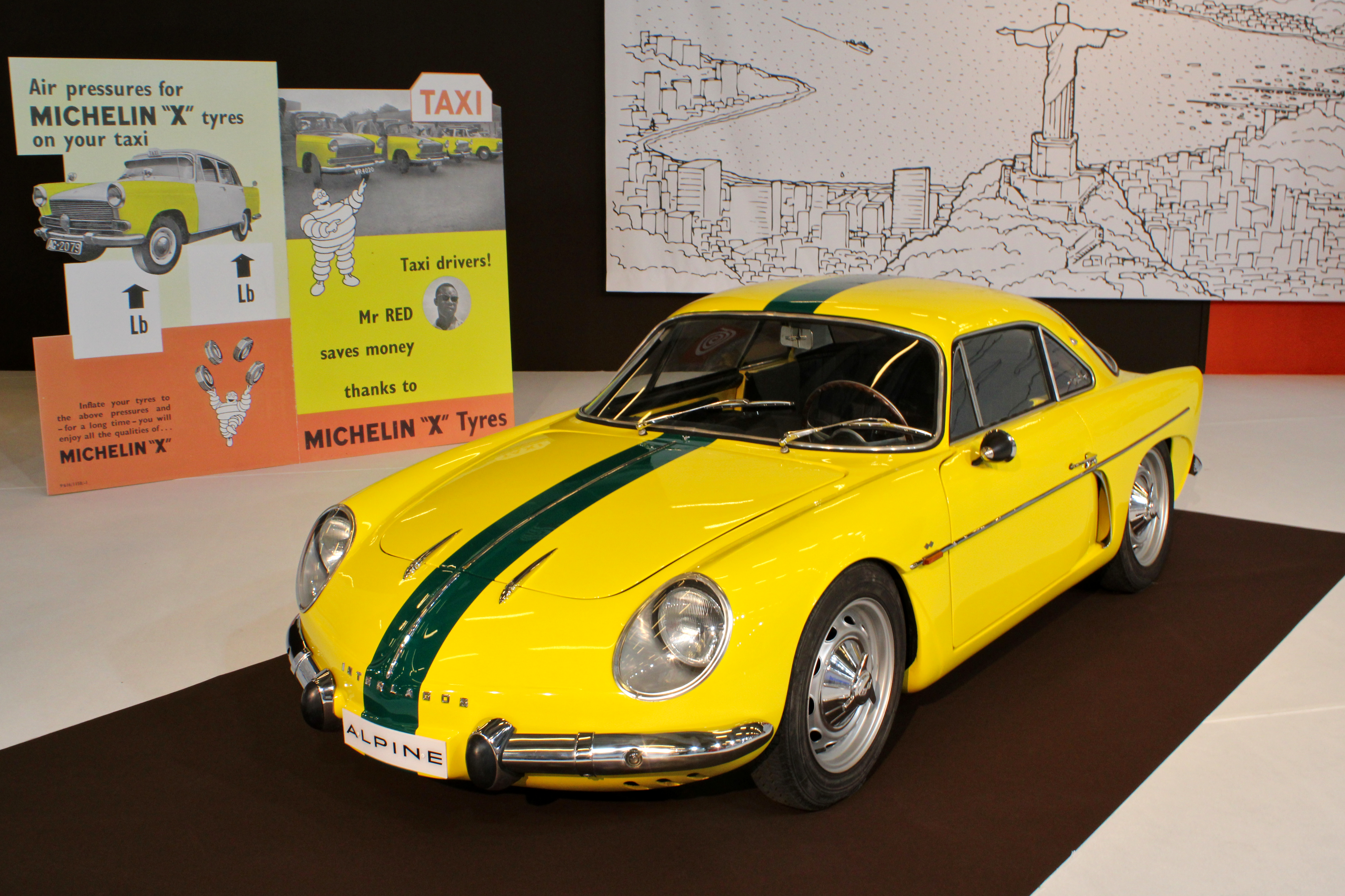 Willys Interlagos (1964) at Paris Motor Show 2018